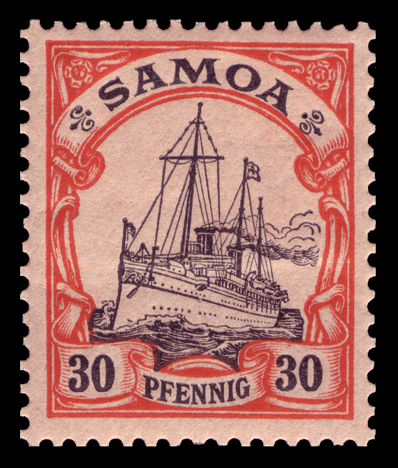 stamp series for German Colonies Ausgabepreis: 30 Pfennig First Day of Issue / Erstausgabetag: 10. Dezember 1900 Michel-Katalog-Nr: 12 (Deutsche Kolonie Samoa)